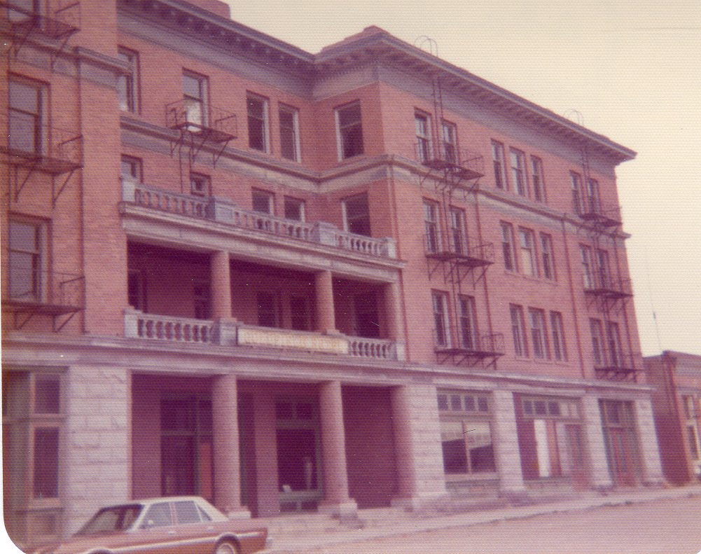 Goldfield Hotel (abandoned), Goldfield, Esmeralda County, Nevada, 4-11-1976